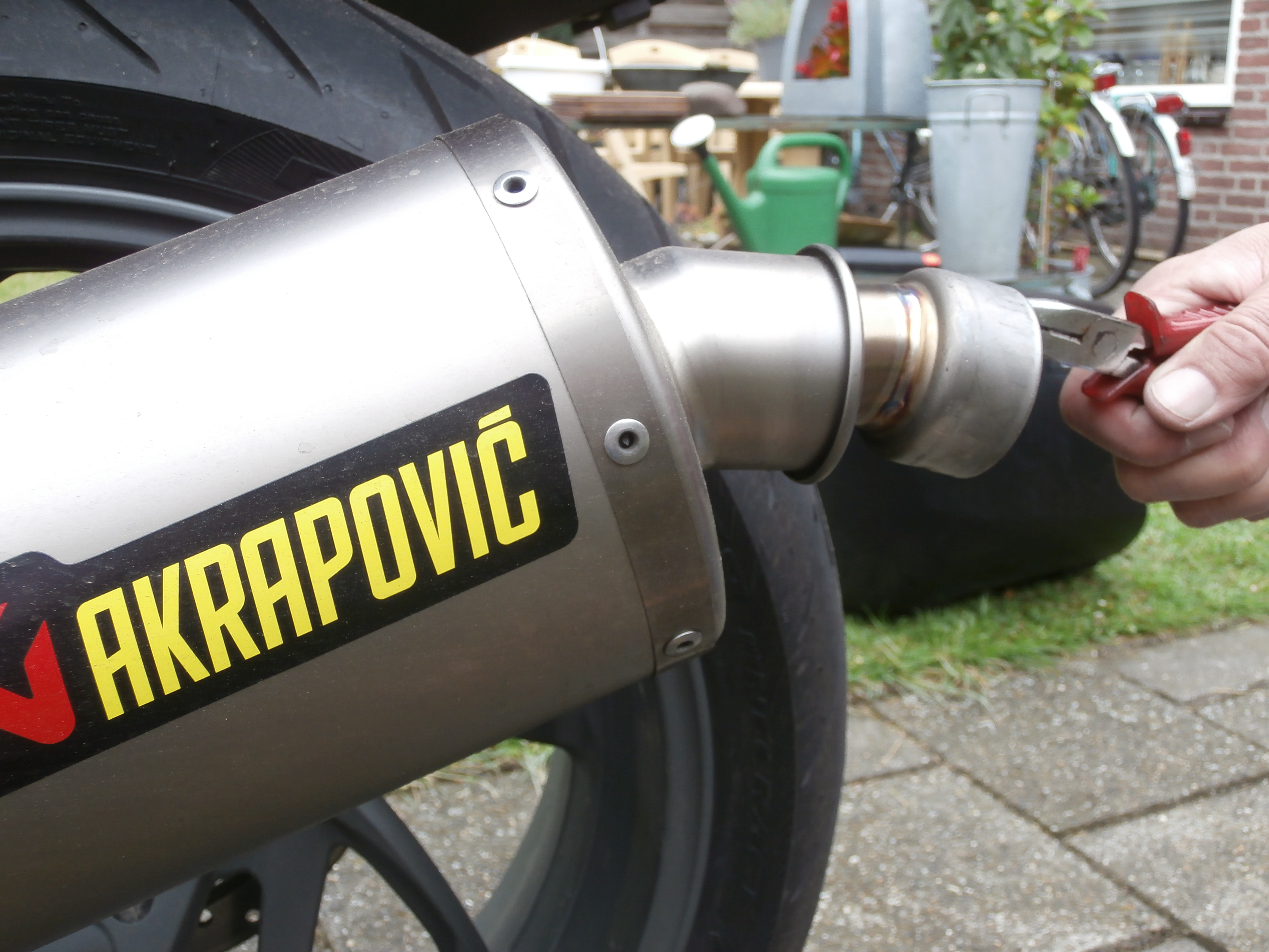 Decibel Killer